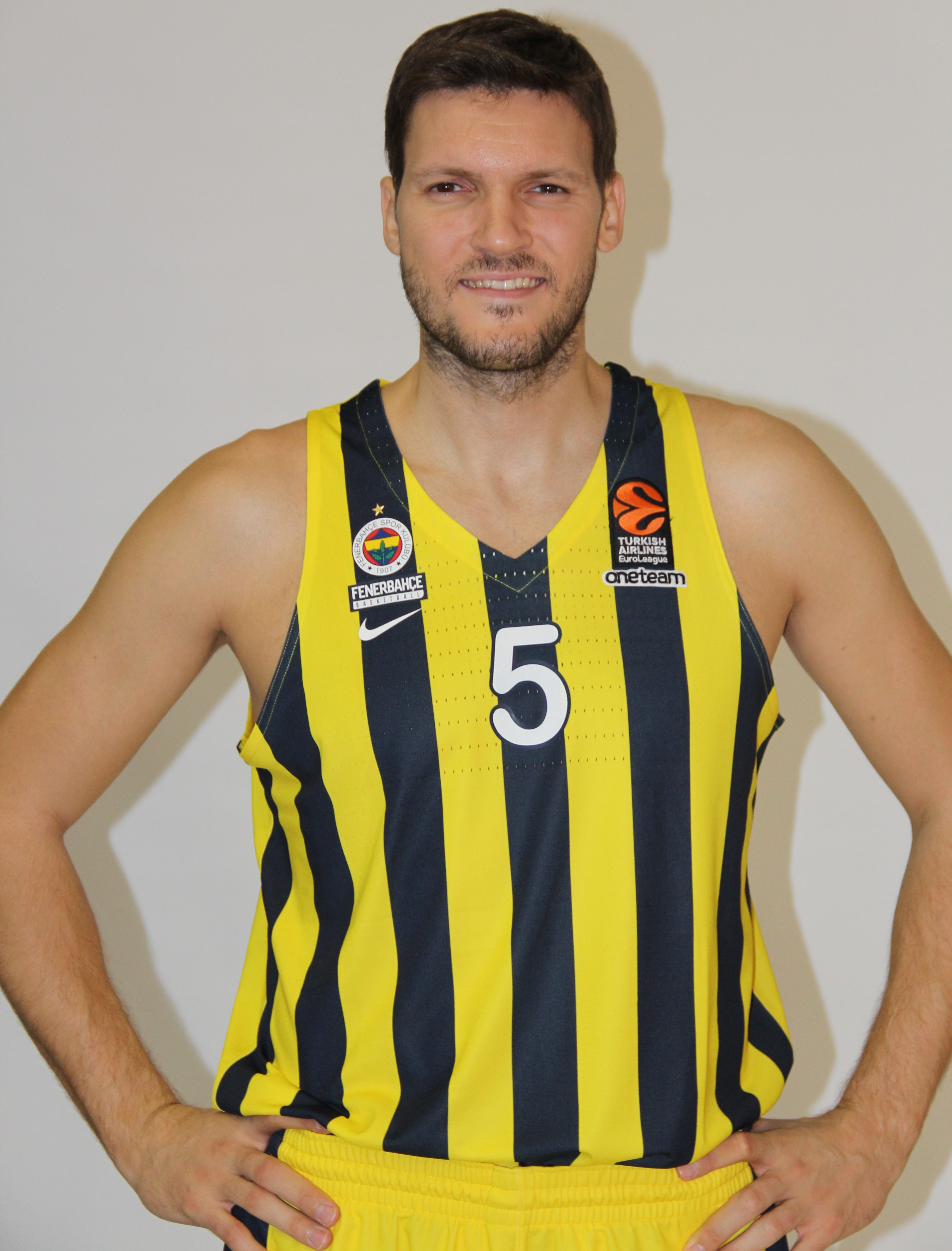 Barış Hersek Fenerbahçe Basketball Media Day 20180925